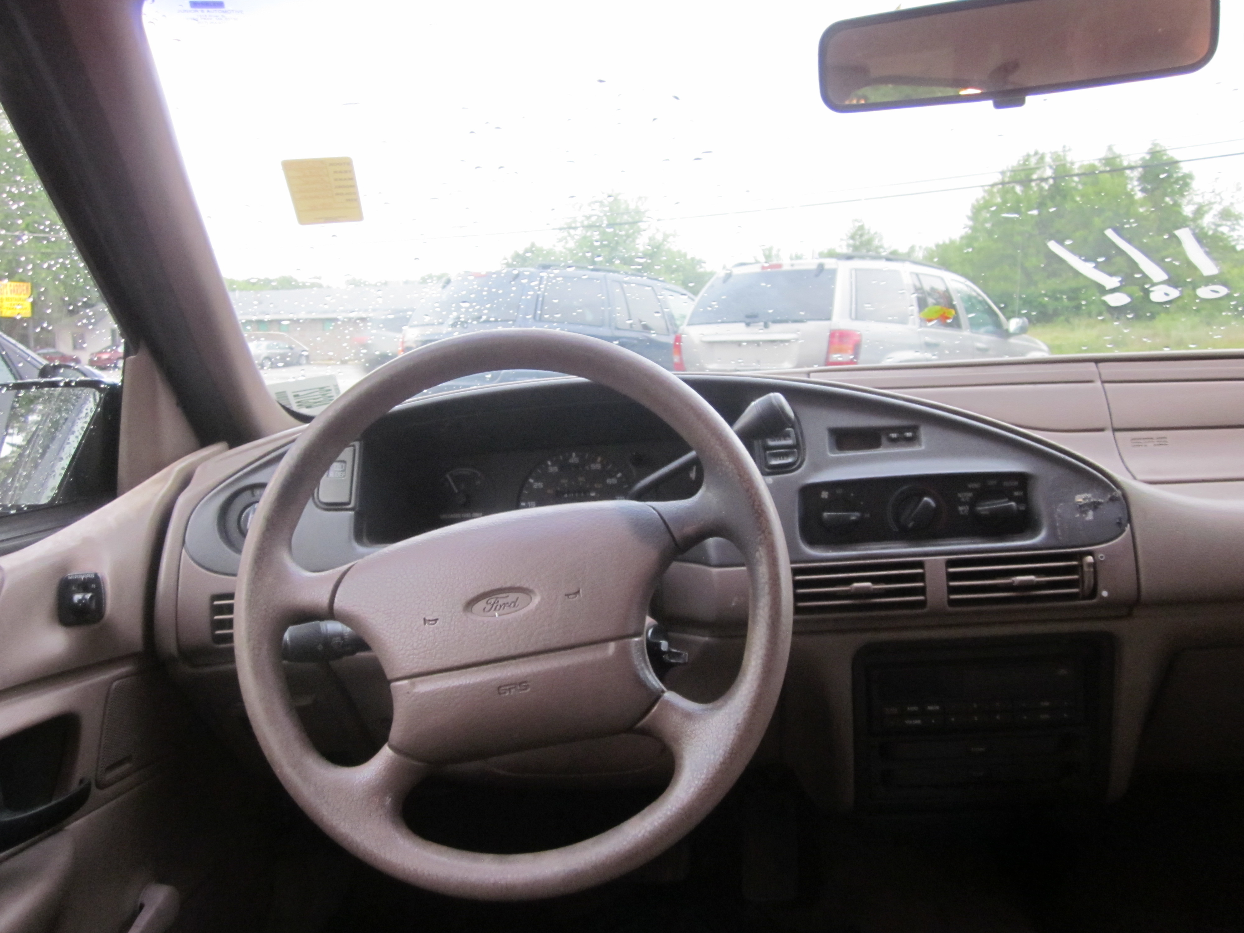 95 Taurus dash